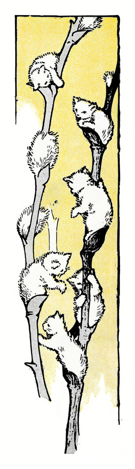 Catkins on a pussy willow conflating into kittens. Illustration by Margaret Ely Webb from "Aldine Readers: Book One", page 57 (available online at the Hathi Trust Digital Library). Text Appearing Before Image: PUSSY WILLOWSSummer is coming.I know it is.How do you think I know?Today I found some pussy willows.Pussy willows come to tell us winter is over.All winter they were asleep.But now they are awake.How glad they look!They know winter is over.